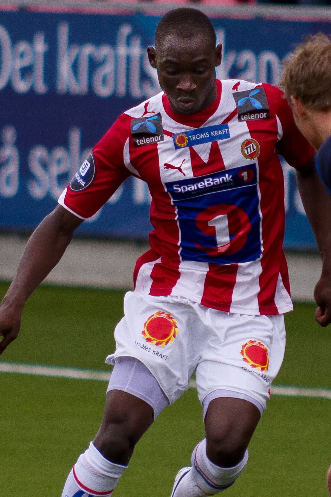 Caliou Ciss playing for Tromsø IL